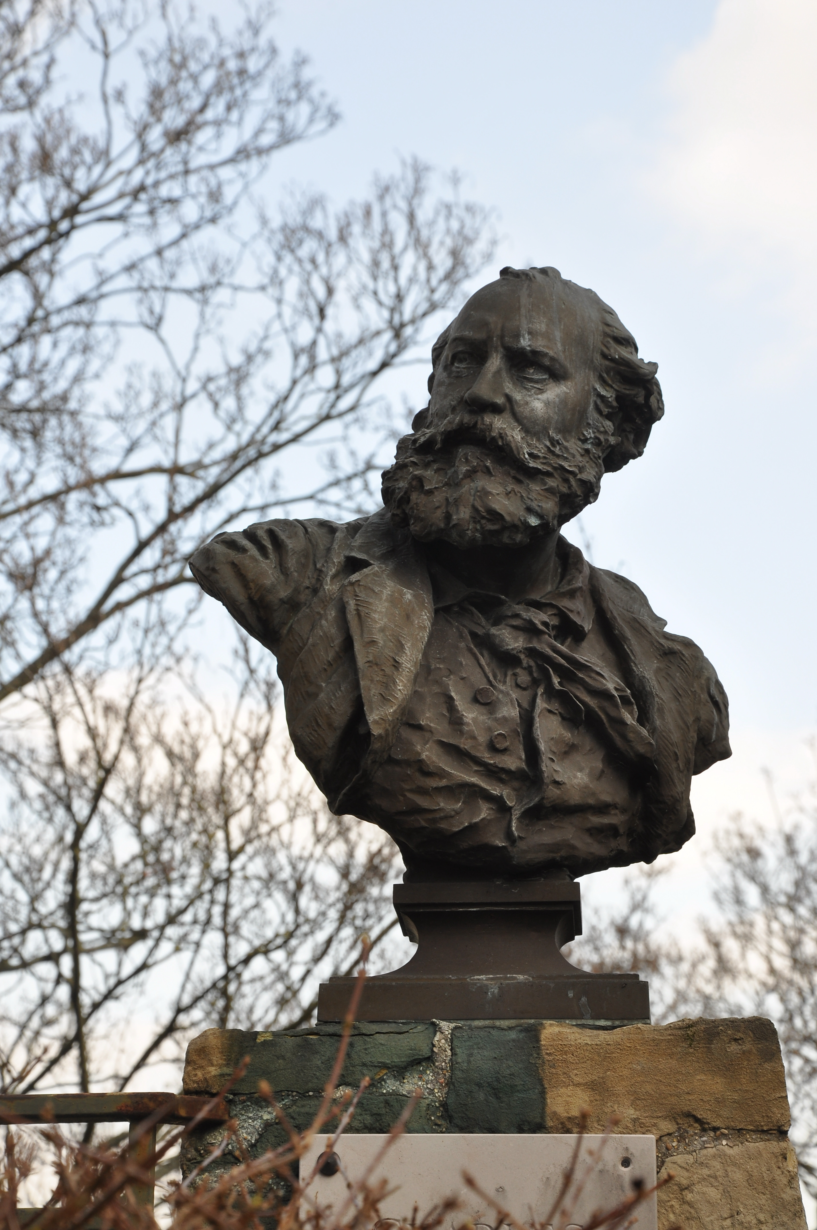 Charles Gounod's bust located at Place de l’Église in Saint-Cloud, Hauts-de-Seine department, France.